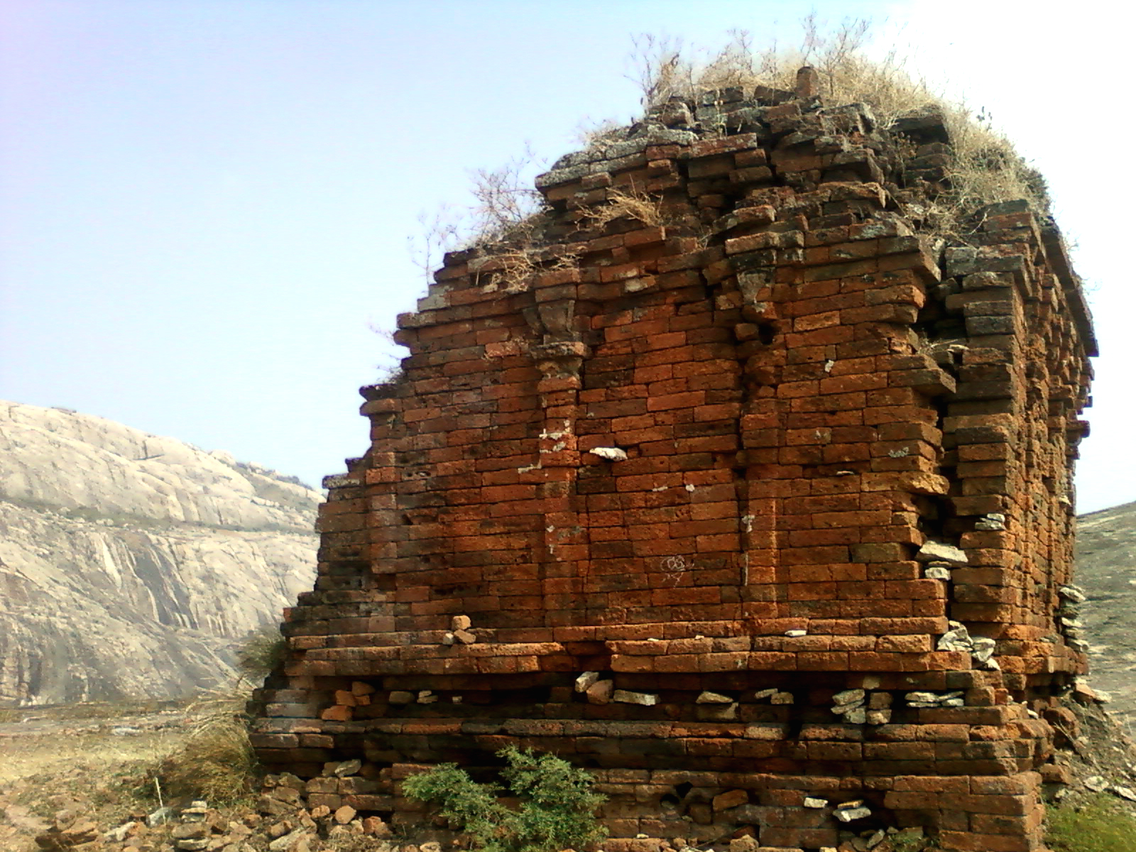 Ruins of Buddhist Temple on Bodhikonda in Ramatheertham, Vizianagaram district